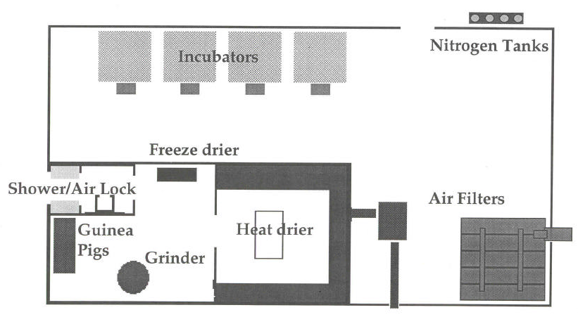 Layout of Aum Shinrikyo biological weapons facility. From 'Proceedings of the Seminar on Responding to the Consequences of Chemical and Biological Terrorism'